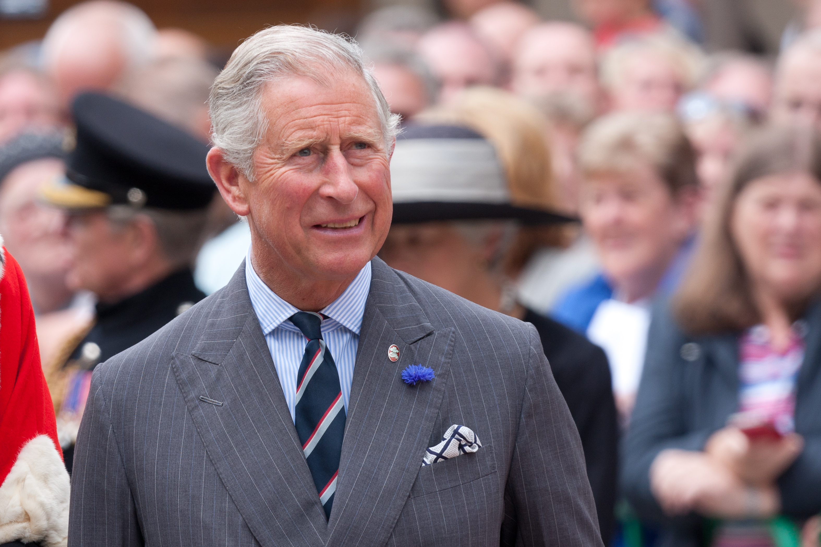 Charles, Prince of Wales in Jersey on 18 July 2012.